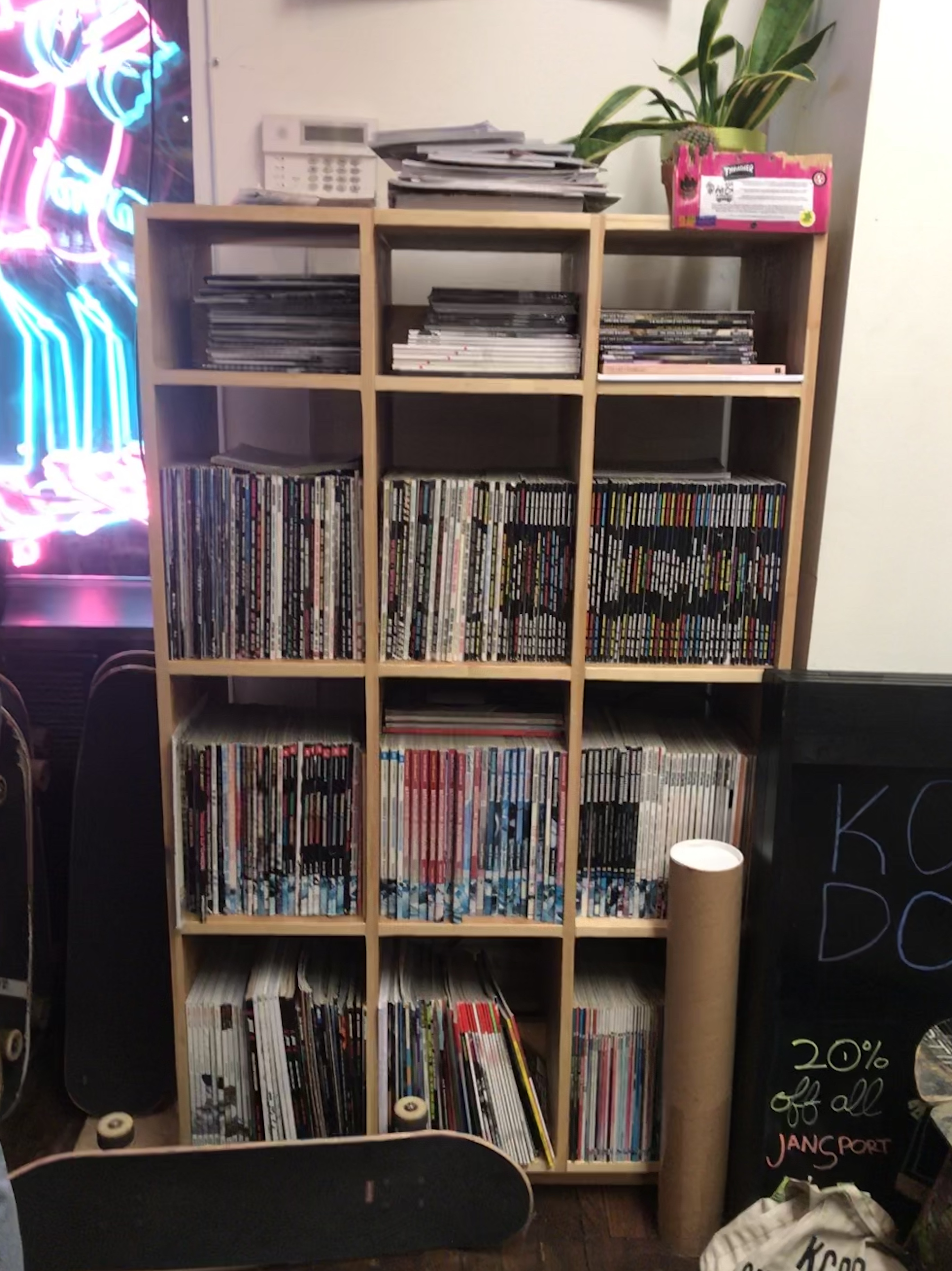 A skateboard sits in front of the bookshelves holding many awesome old issues of skate magazines from Thrasher to Strength to Slap at the Look Back Library at KCDC.